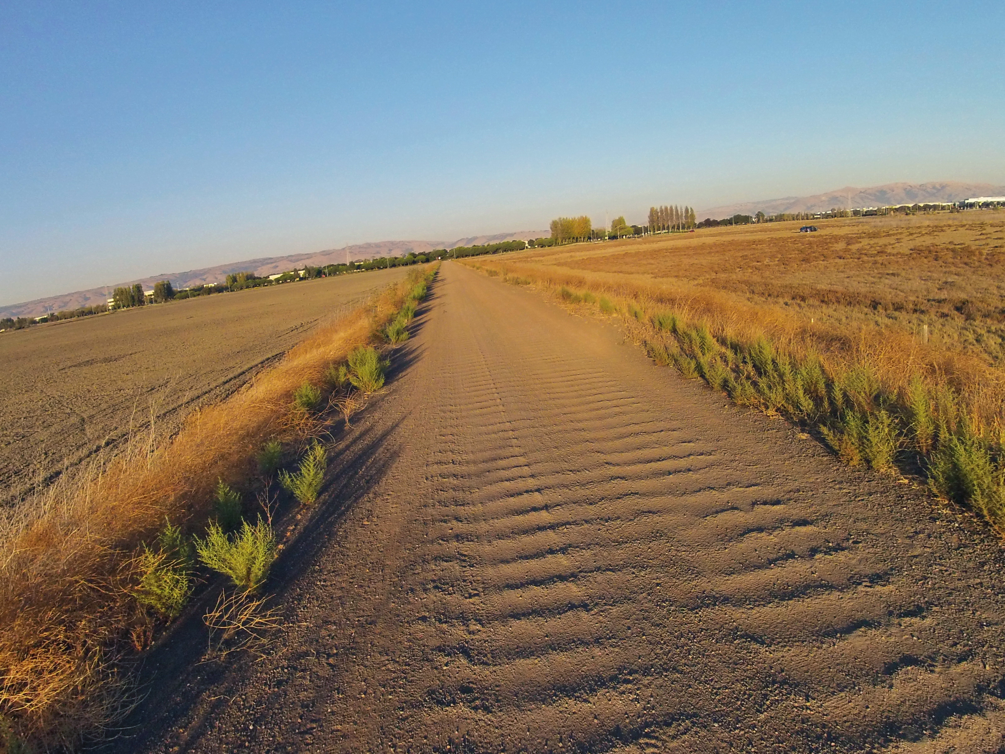 A man made dirt road in Fremont, California, Shows heavy amount of washboarding damage from dry weather and constant wear.